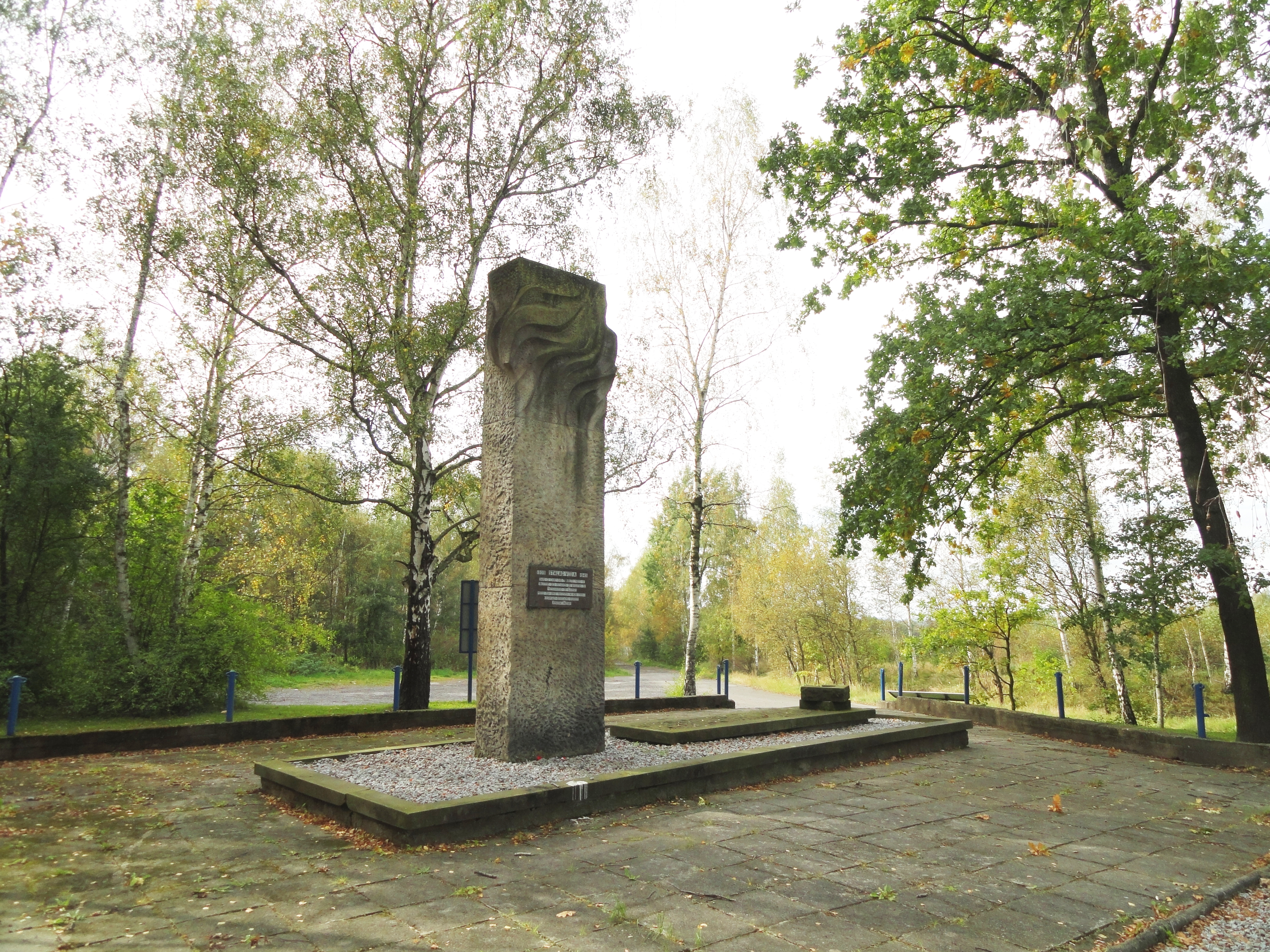 Stalag VIIIA Memorial in Zgorzelec, Poland